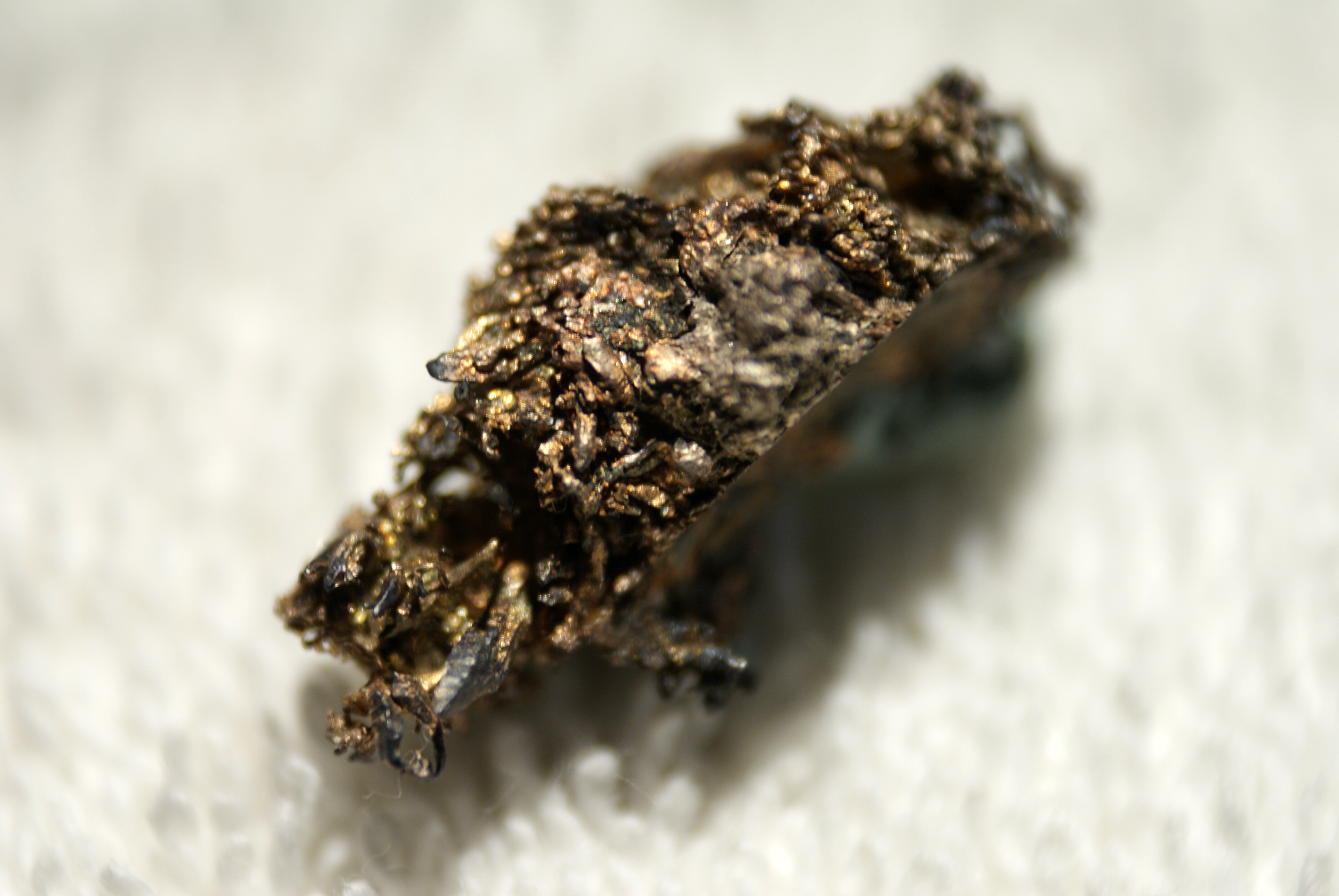 Some native silver.